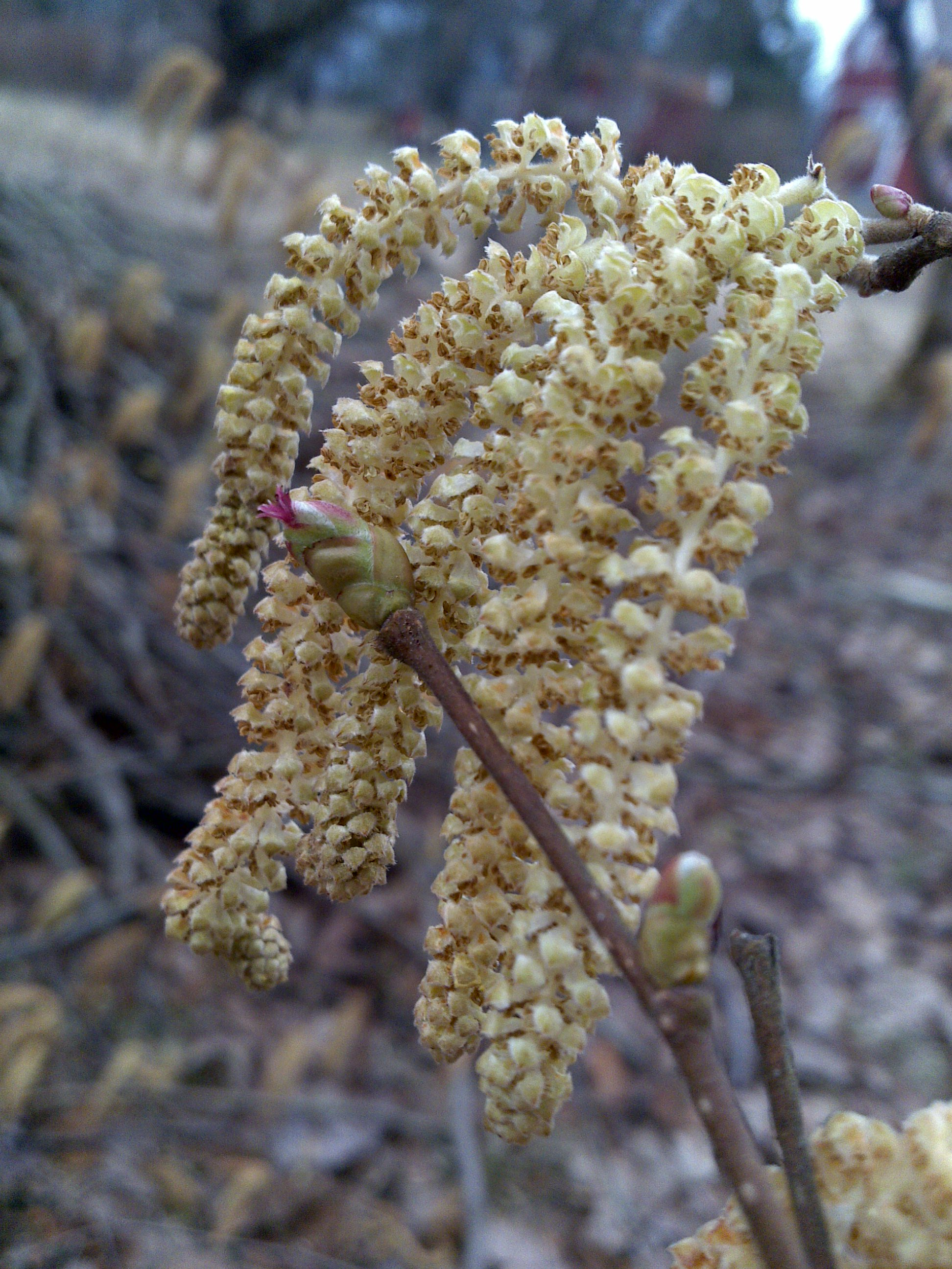 Male and female flowering of Corylus avellana (hazel) in Porsgrunn, Norway in mid-april.